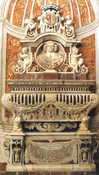 Tomb of Don Diego Pappalardo - Basilica of Saint Catherine of Alexandria, Pedara